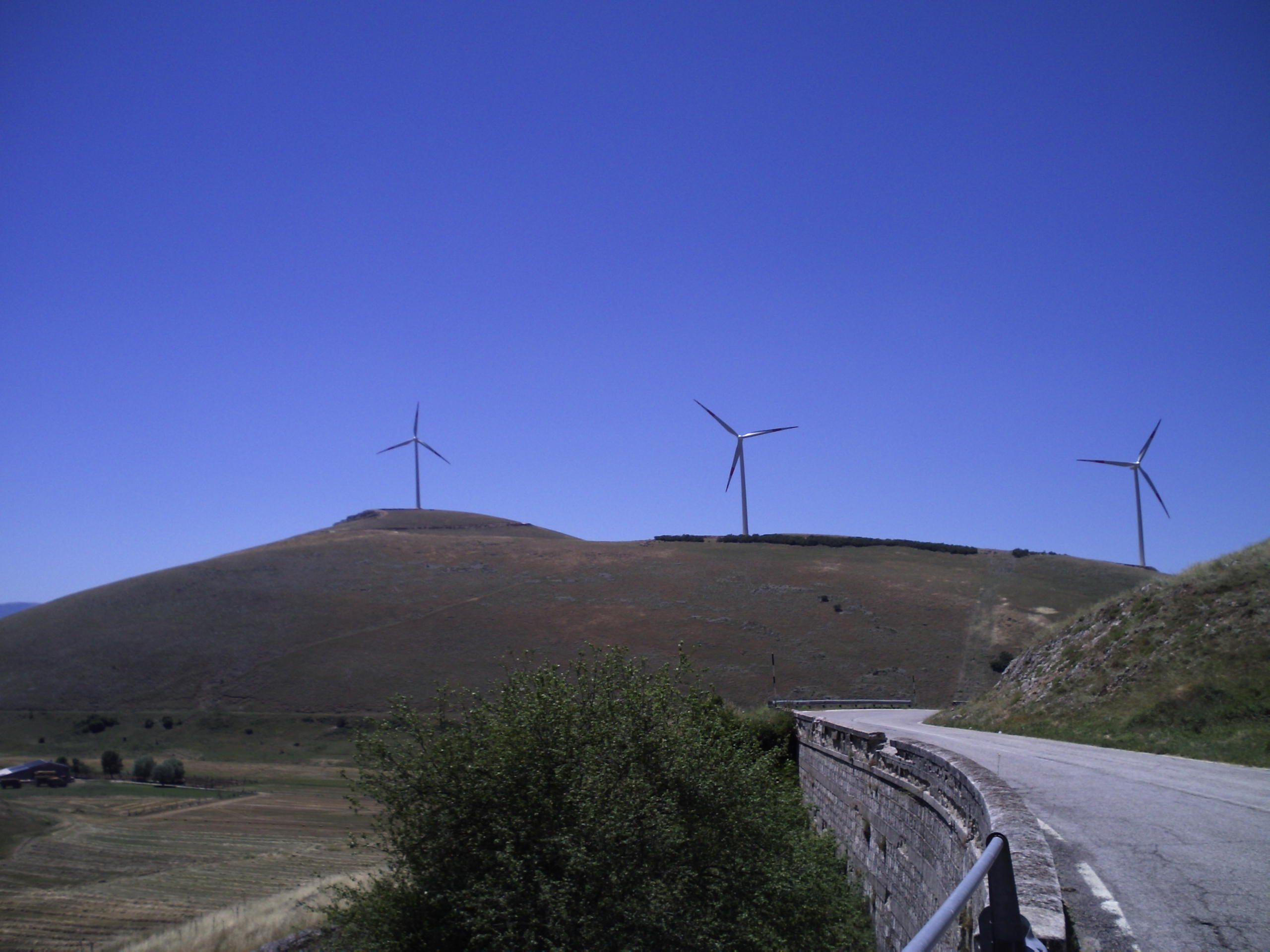 Strada Statale 5 near Forca Caruso Pass, in Italy